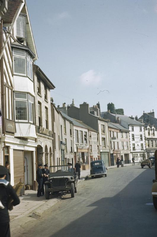 The British Fishing Village of Brixham, Devon in 1944 British naval officers with a jeep in the street of the fishing village.